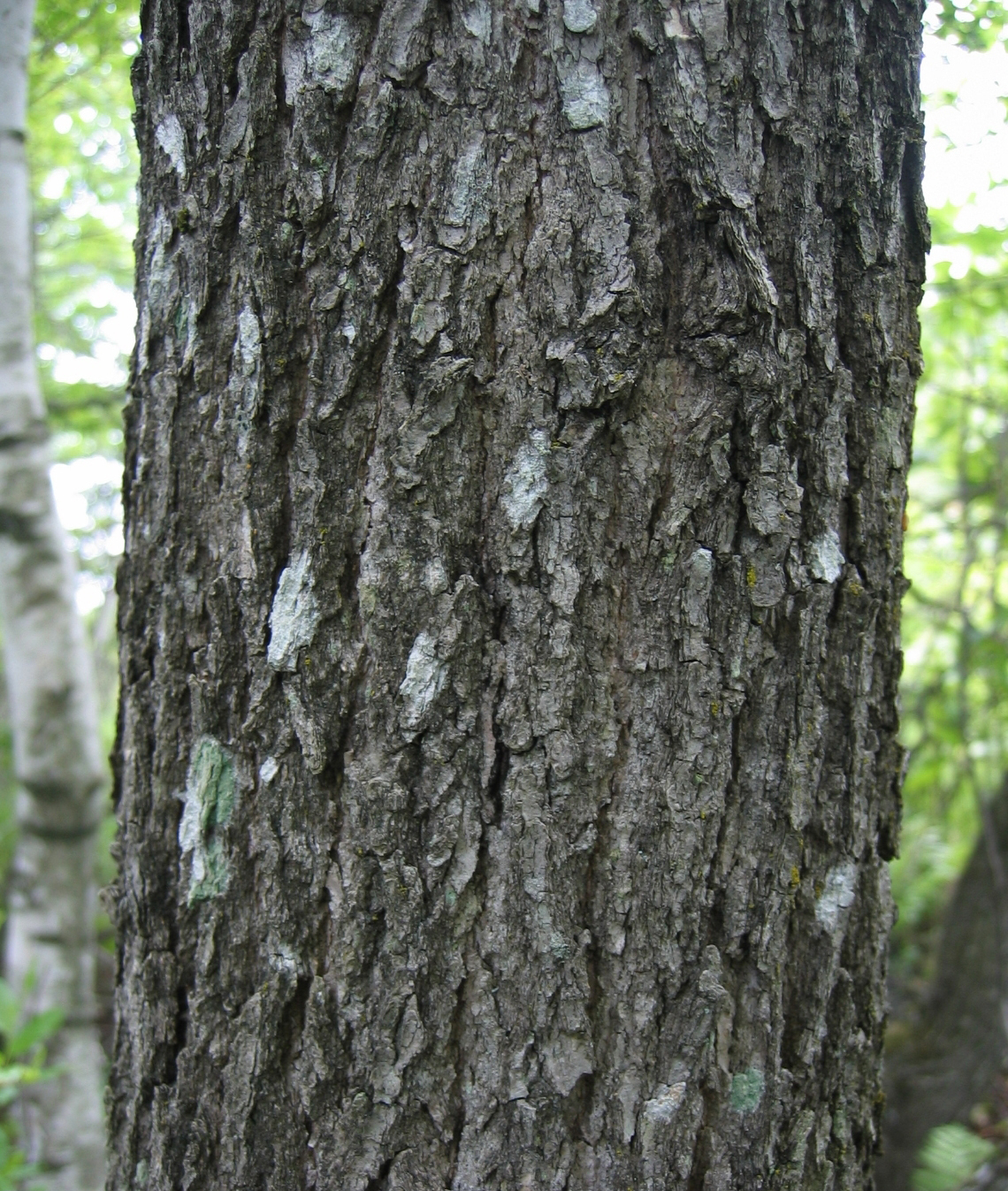 Nyssa sylvatica bark.